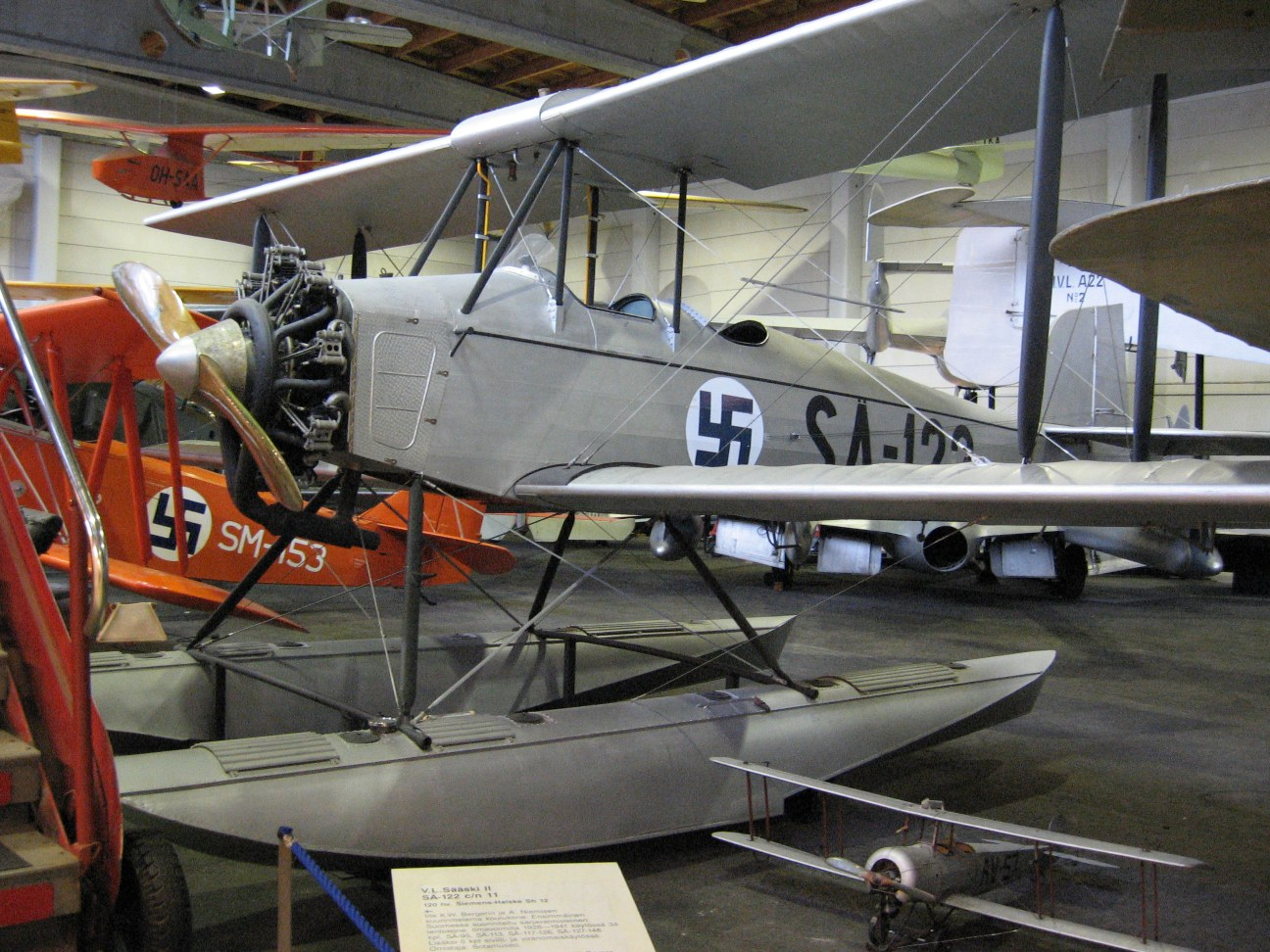 VL Sääski II, Finnish made trainer aircraft of Finnish Air Force 1928–1941